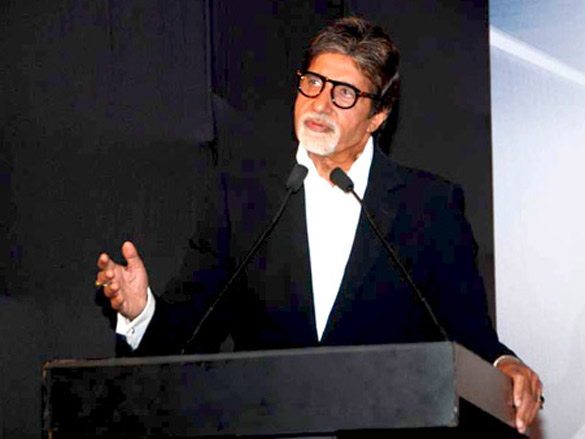 Amitabh Bachchan at the audio release of Enthiran